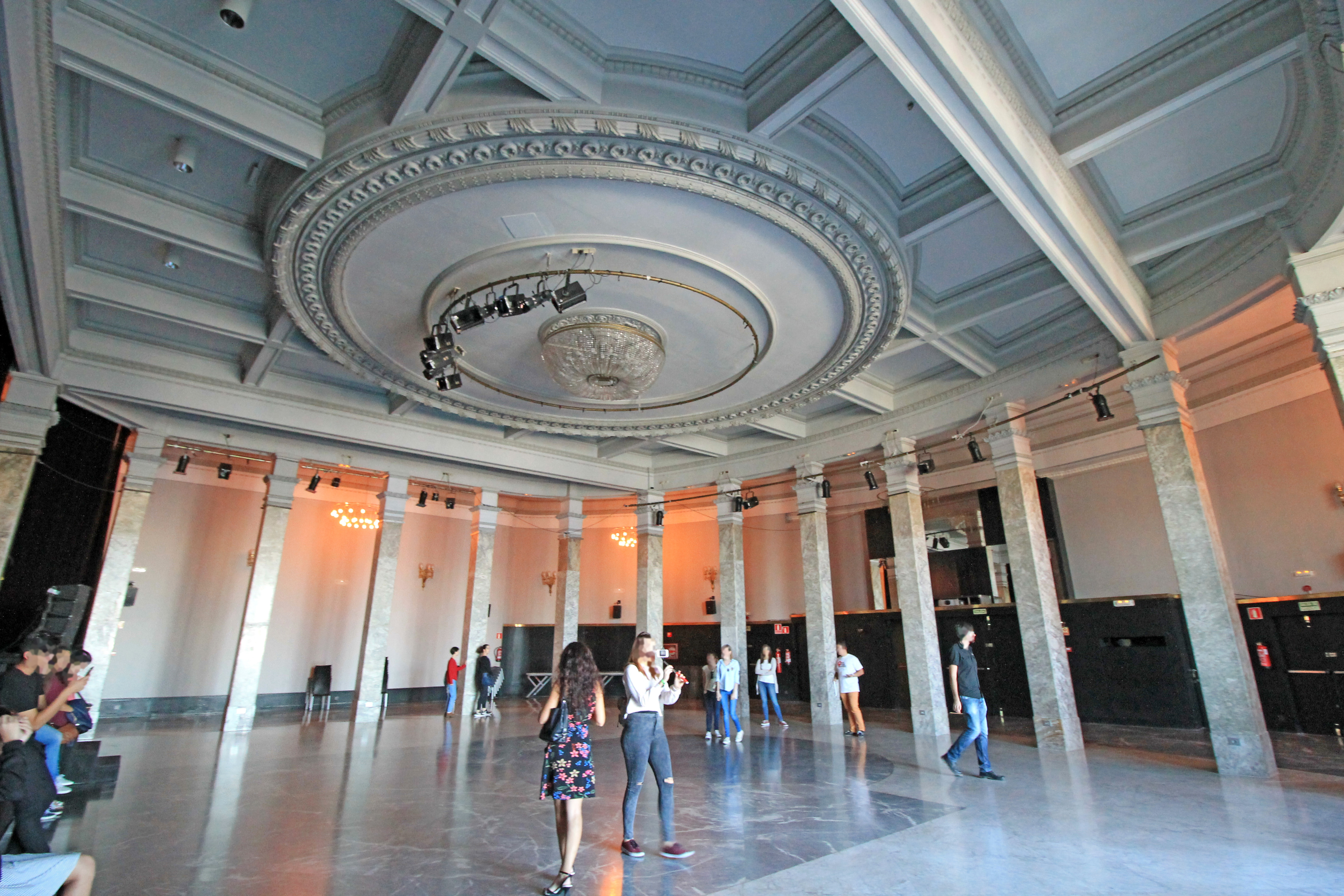 The so-called Columns' Room of Círculo de Bellas Artes in Madrid (Spain).